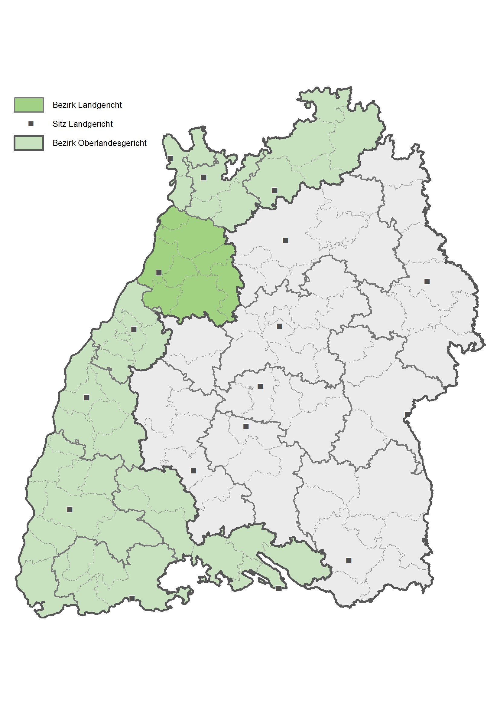 district map of the Landgericht (regional court) of Karlsruhe in Baden-Württemberg, Germany